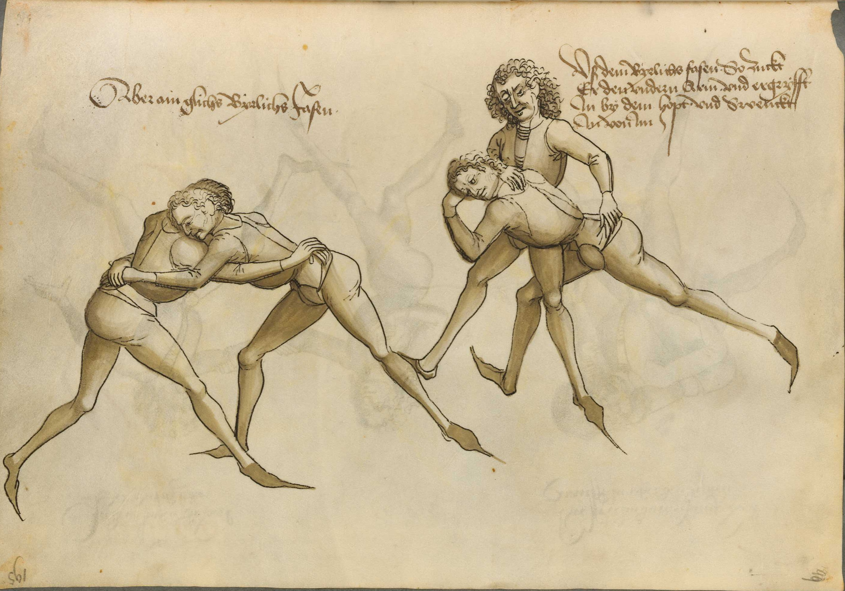 This is a scan of the historical Fechtbuch ('fencing book') by German fencing master Hans Talhoffer.